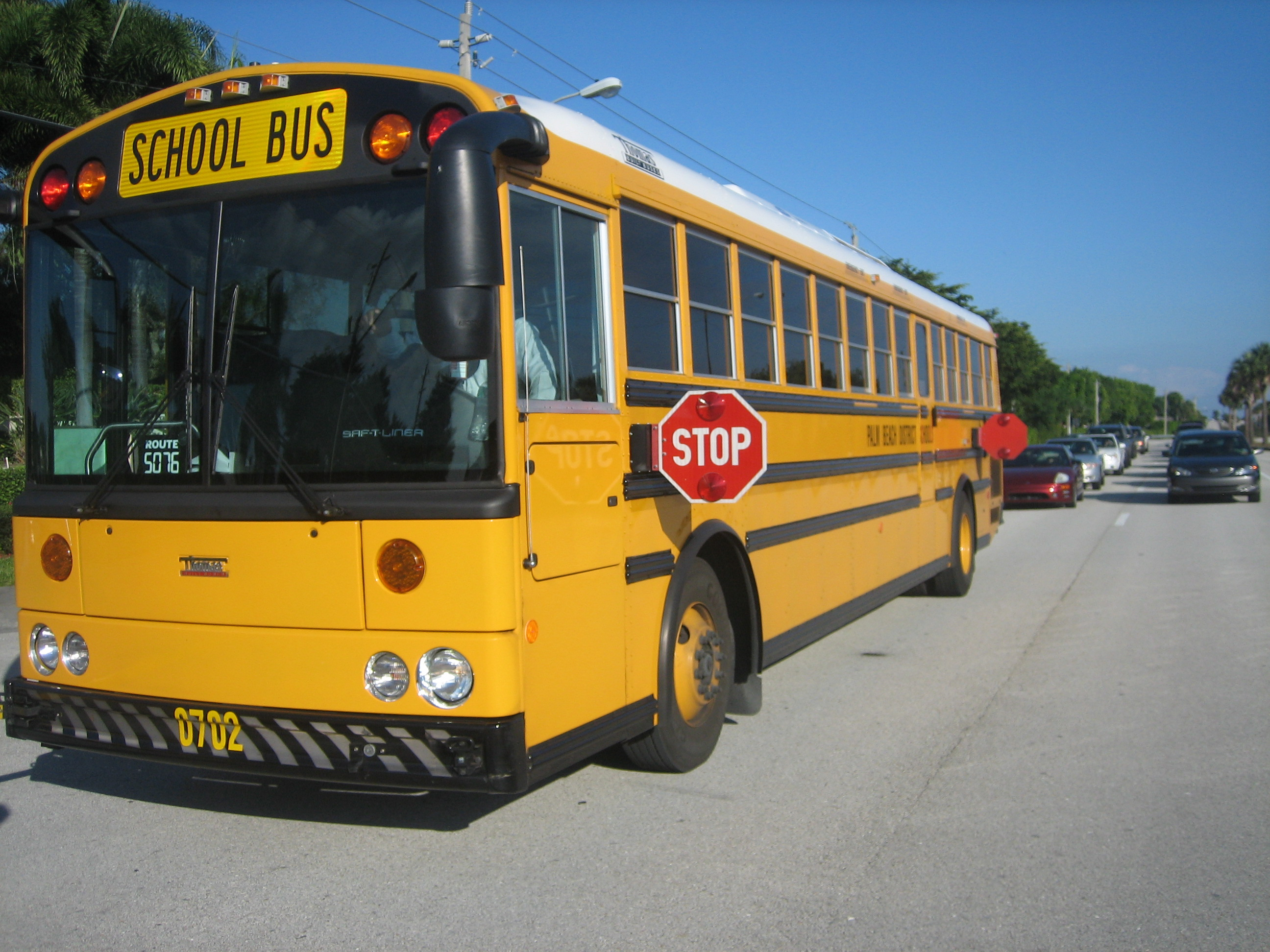 Image of a Thomas Saf-T-Liner HDX school bus.